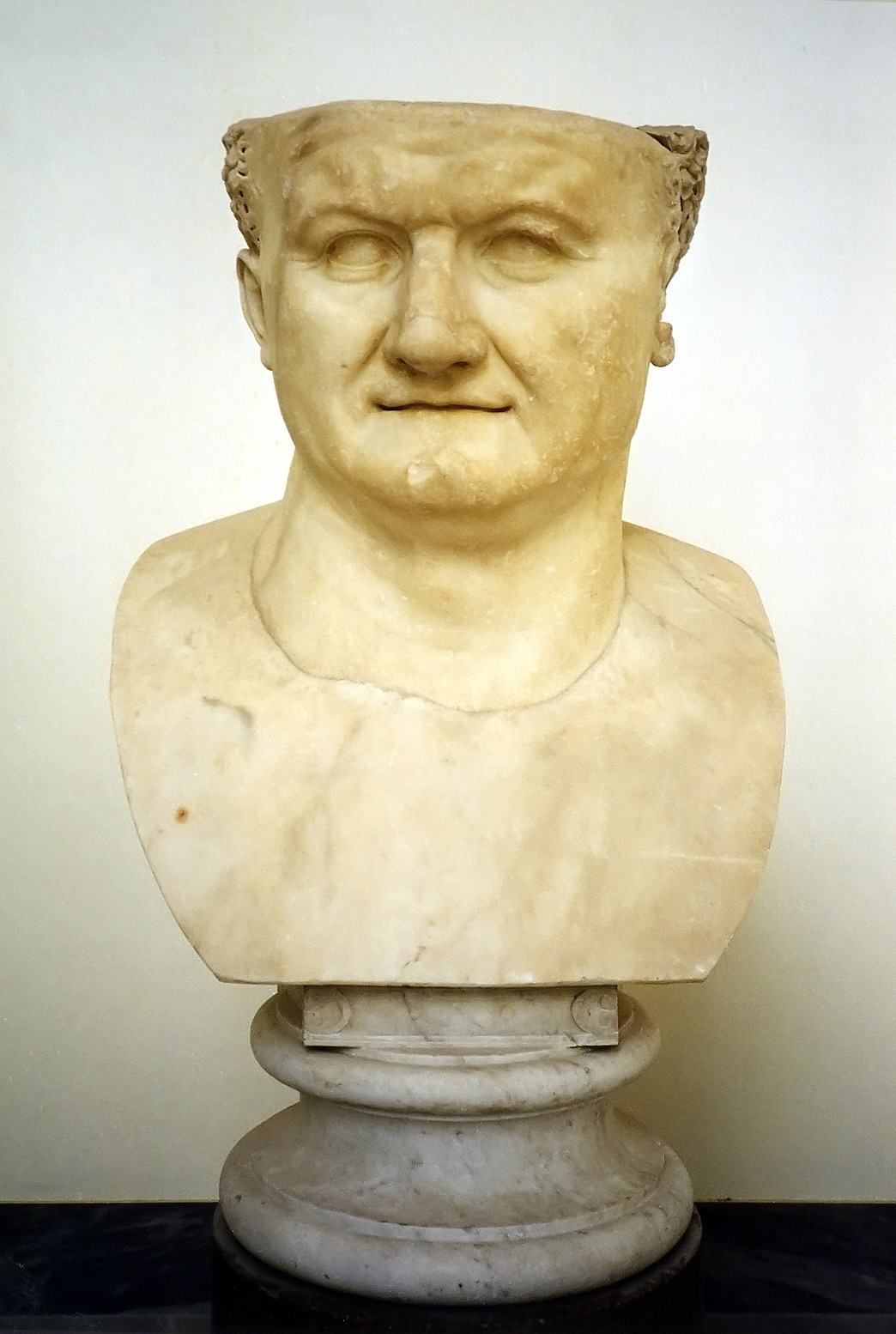 Statue of Vespasianus at the Archeological Museum in Napoli